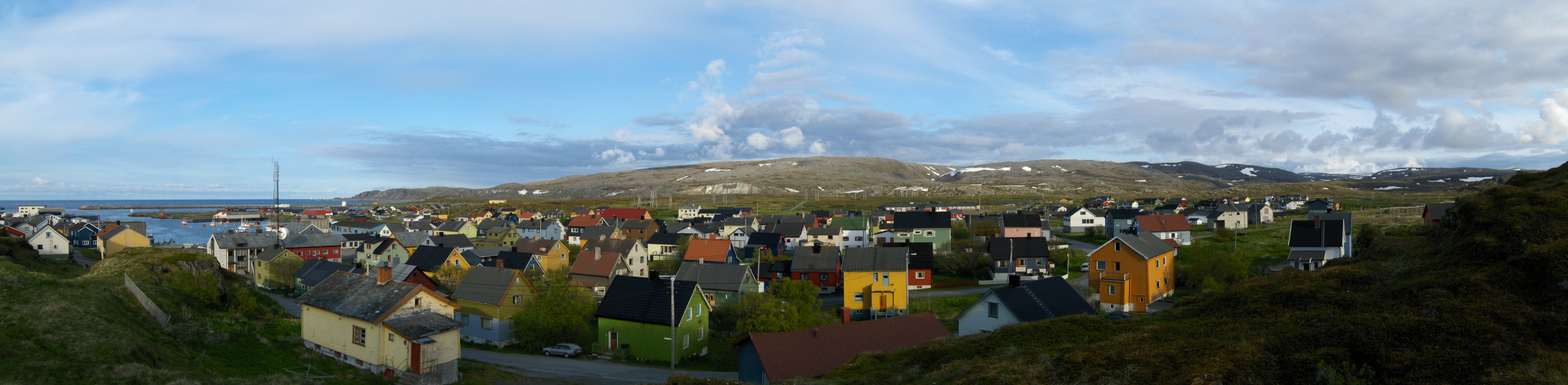 Panoramapcture of Berlevåg in Norway